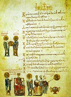 Iconoclast Council of 815, folio 27v, Theodore Psalter, 1066.